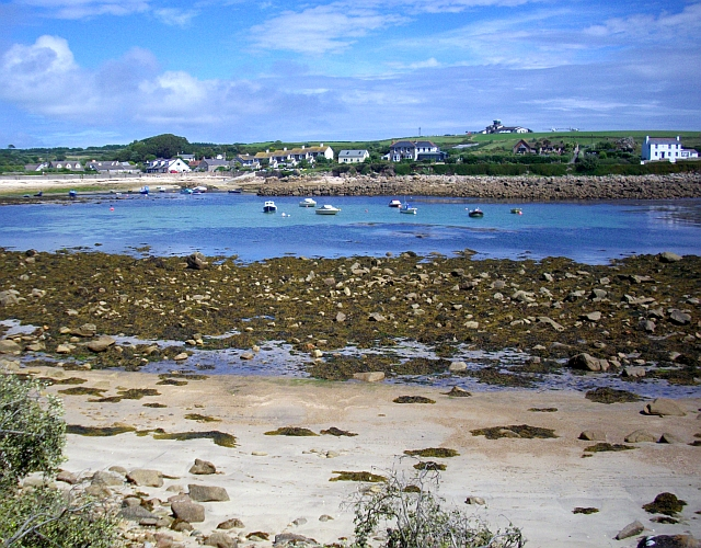 Old Town, St. Mary's Known as Porthennor when, in Medieval times, this was the most important harbour on Ennor (as the island of St. Mary's was then known). The tree covered lump on the horizon (left) is the site of the 13th century castle. An annual rent of 8d or 300 puffins was to be paid to the crown for this. The airport buildings can be seen on the right hand horizon.